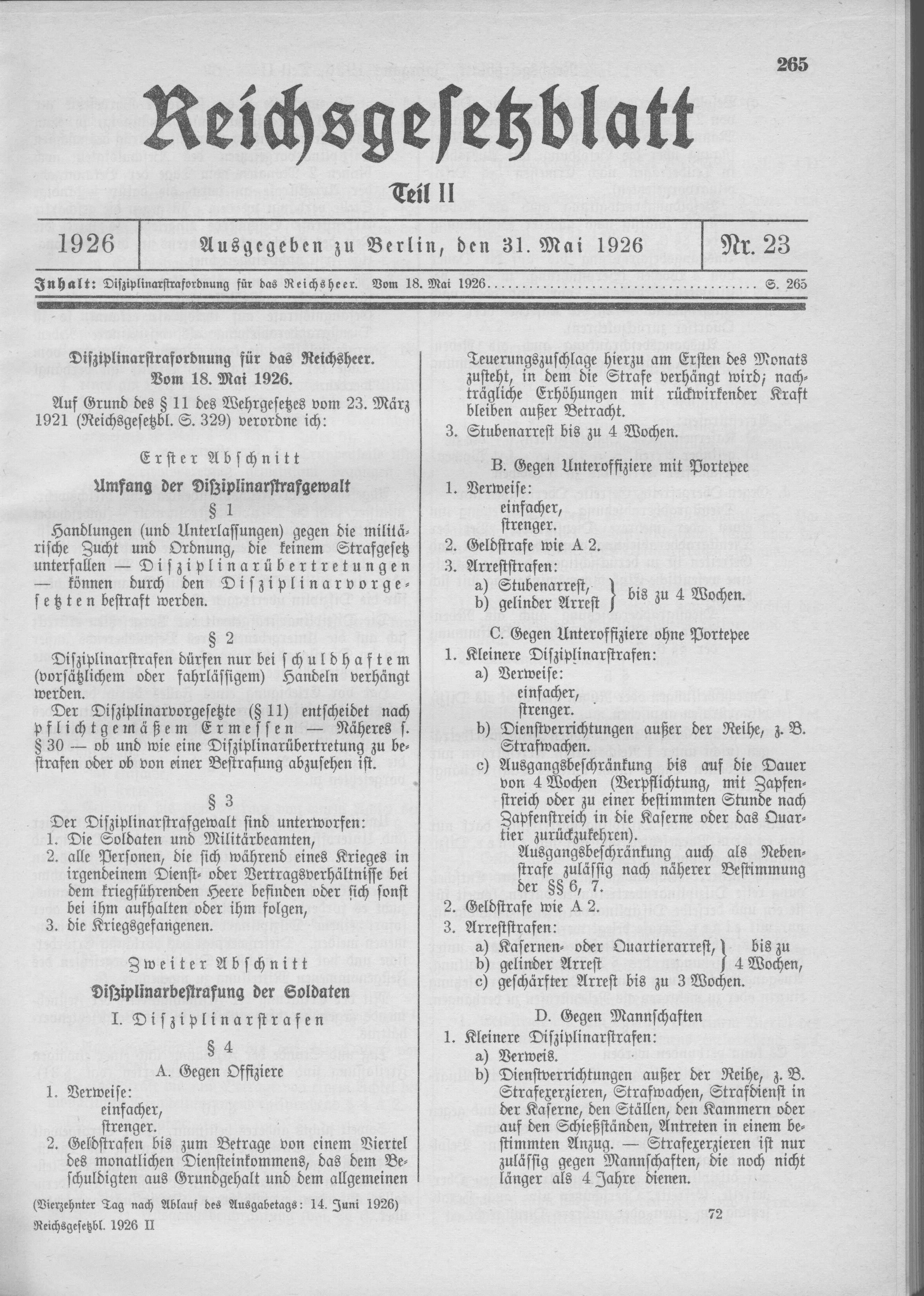 Scan from the Imperial Law Gazette of Germany, 1926, part 2